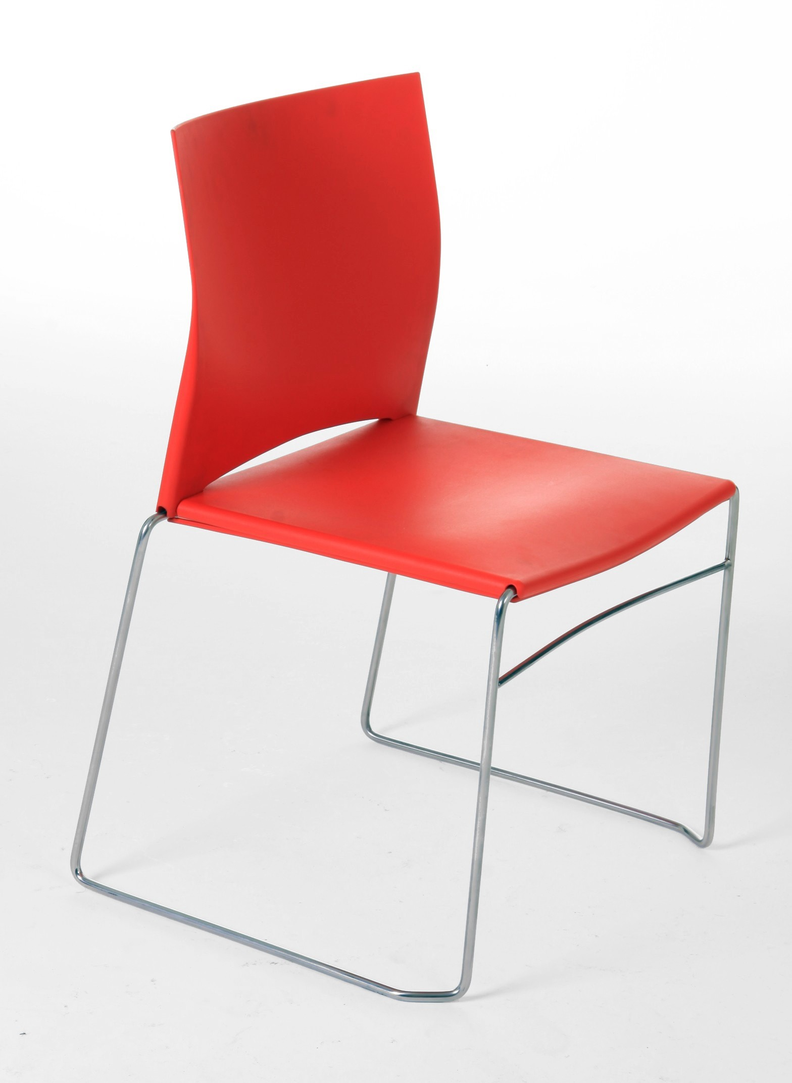 Polypropylene red chair with stainless steel structure from Rio de Janeiro, Brazil made by Palmetal.